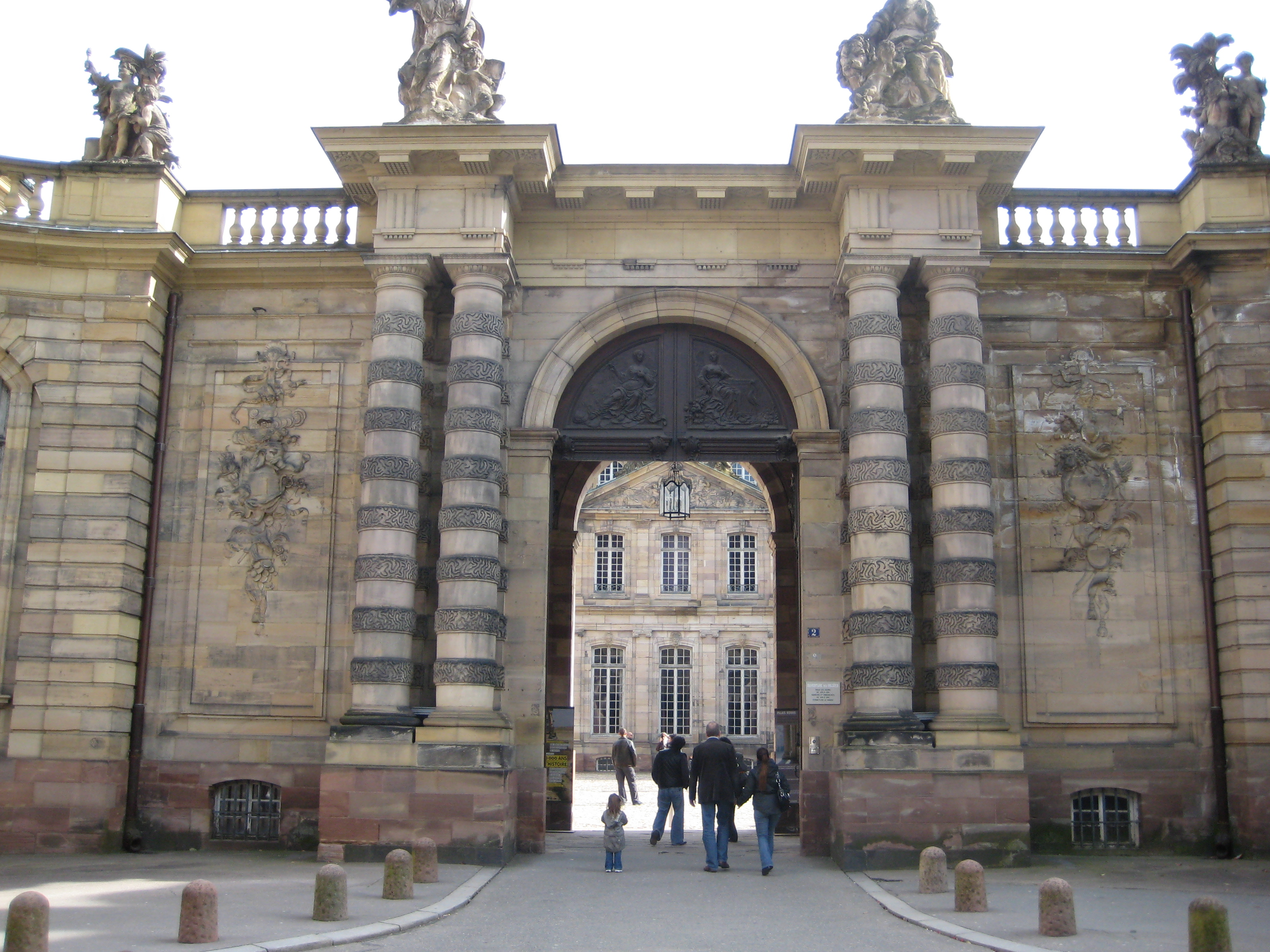 Gastes of Palais Rohan in Strasbourg France